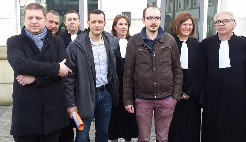 The verdict of the LuxLeaks appeal trial on March 15, 2017. The three defendants and their lawyers. From left to right: Raphaël Halet, Édouard Perrin and Antoine Deltour